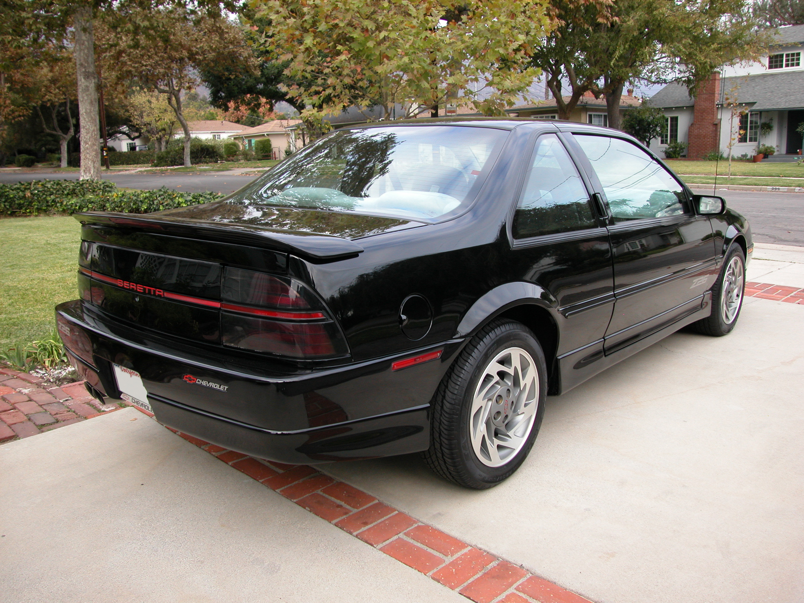 Rear view of a 1996 Chevrolet Beretta Z26. Camera used was a Nikon Coolpix 5000.